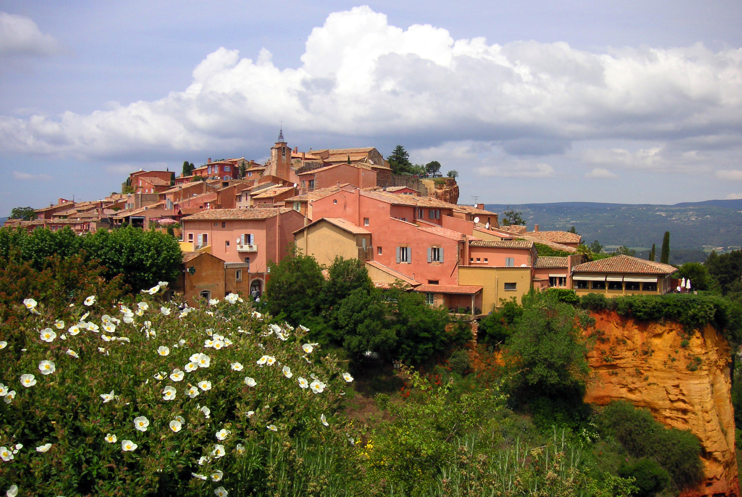 Village of Roussillon, France